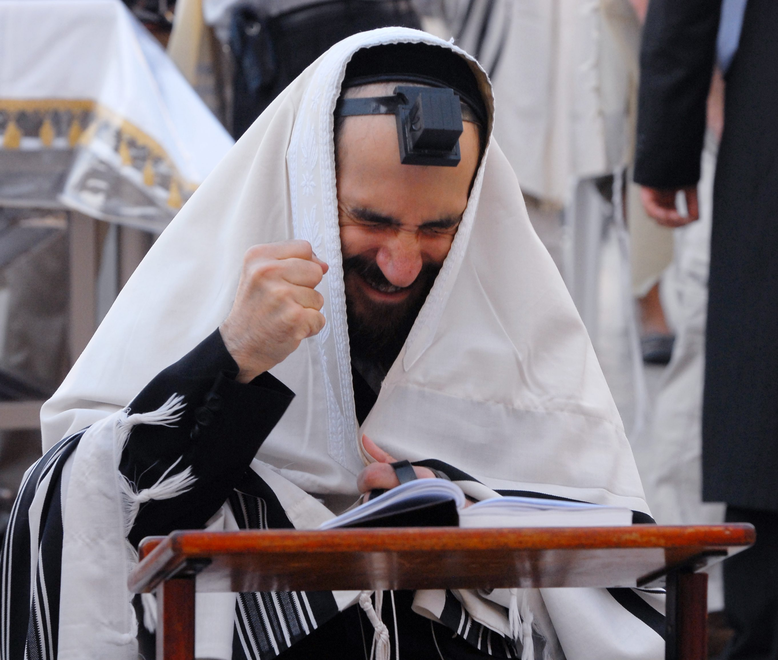 “Slichot” prayer service during the Days of Repentance preceding Yom Kippur at the Western Wall in Jerusalem's Old City. GPO photo by Mark Neyman.